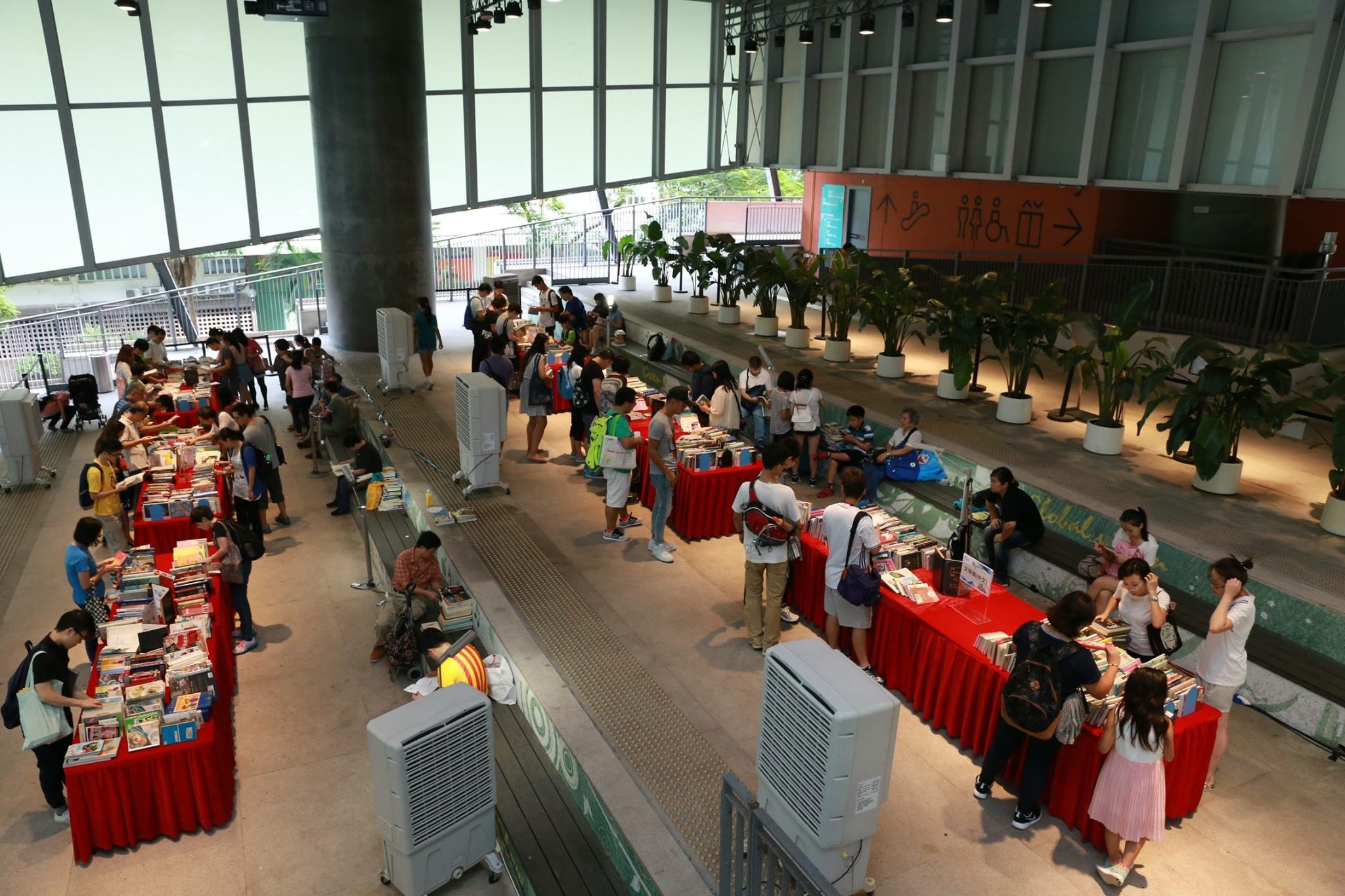 The book crossing event happened in July 2017